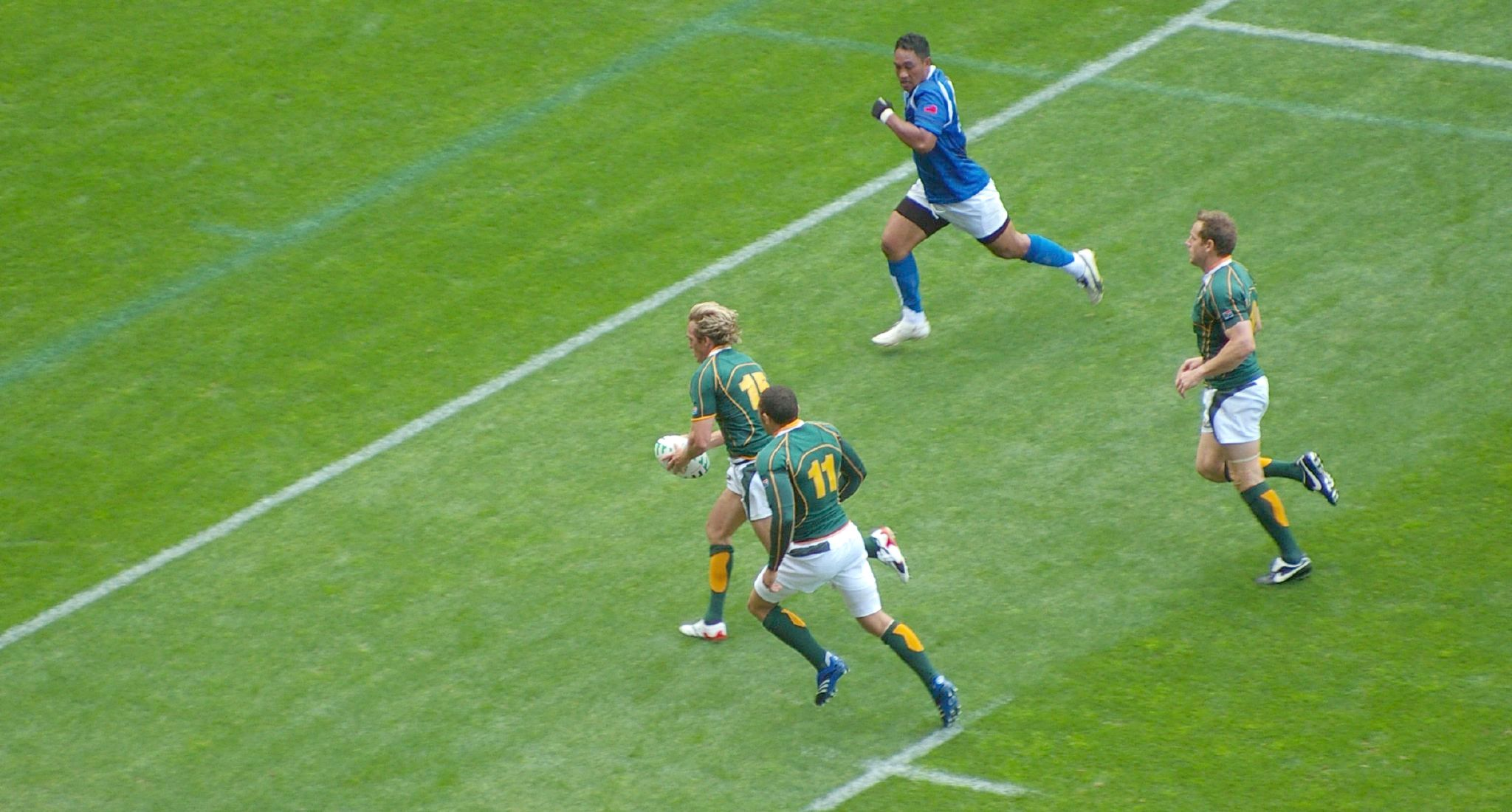 South Africa - Samoa Rugby World Cup 2007 Paris. Parc des Princes